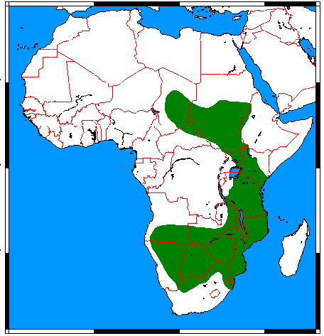 Range map for Ground Pangolin (Manis temminckii), made by me with help of Map depending on the range map at IUCN red list.